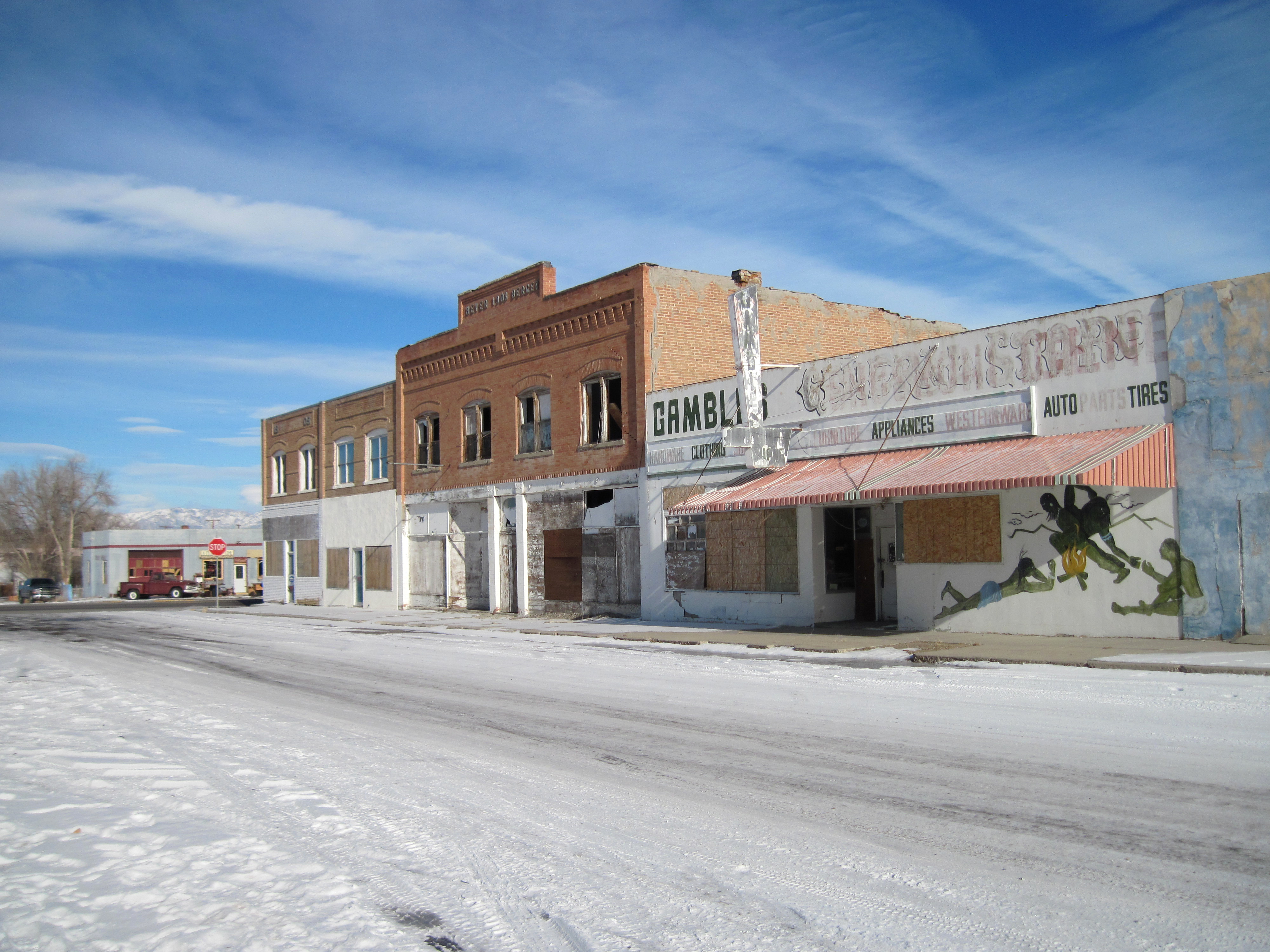 Abandoned downtown building on the east side of the 100 block of Main Street in Shoshoni, Wyoming. This once booming economic downtown has been reduced by time and shifts in trade patterns to a weary skeleton of its former self.